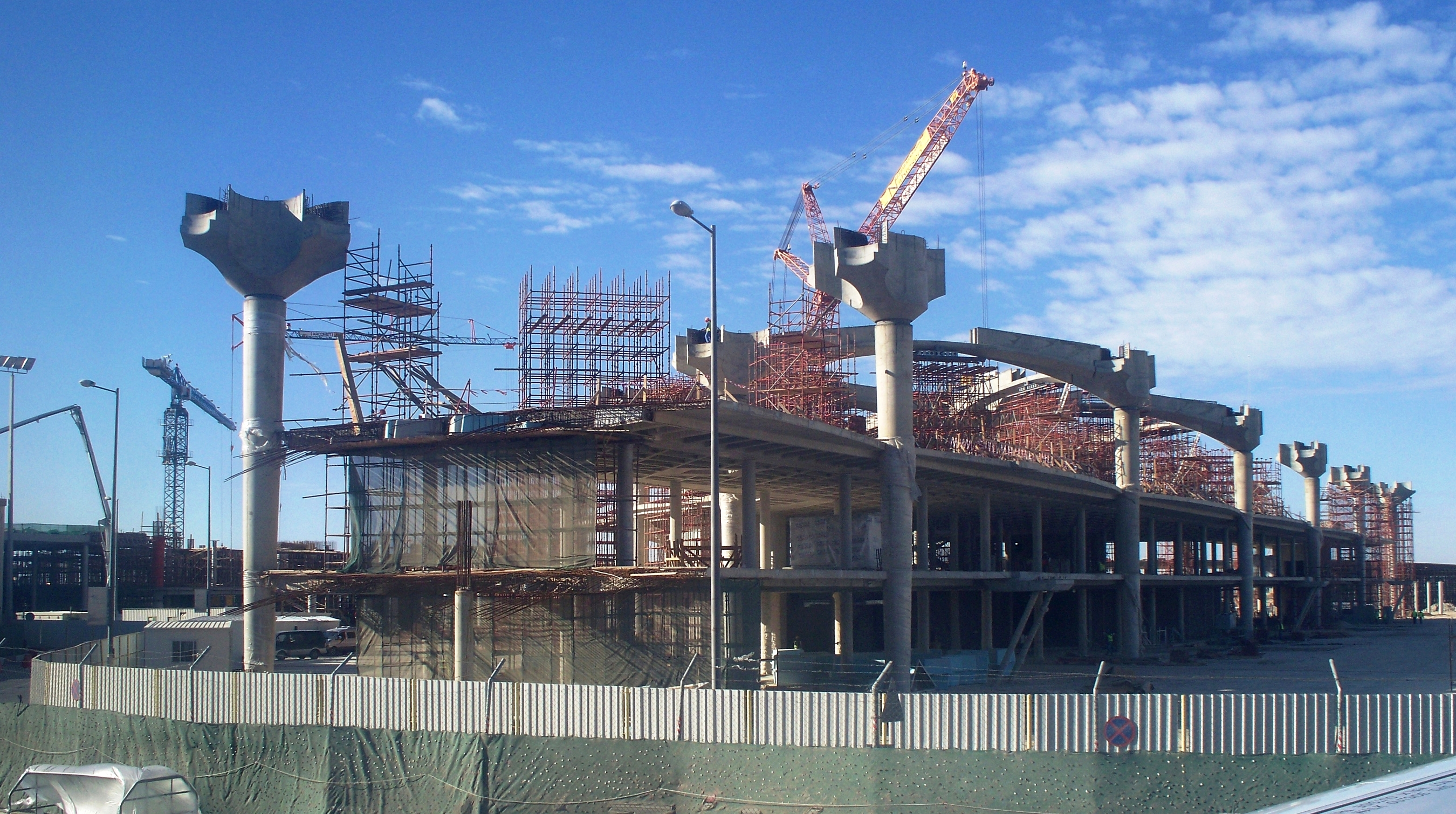 New terminals for the Queen Alia International Airport, Amman.